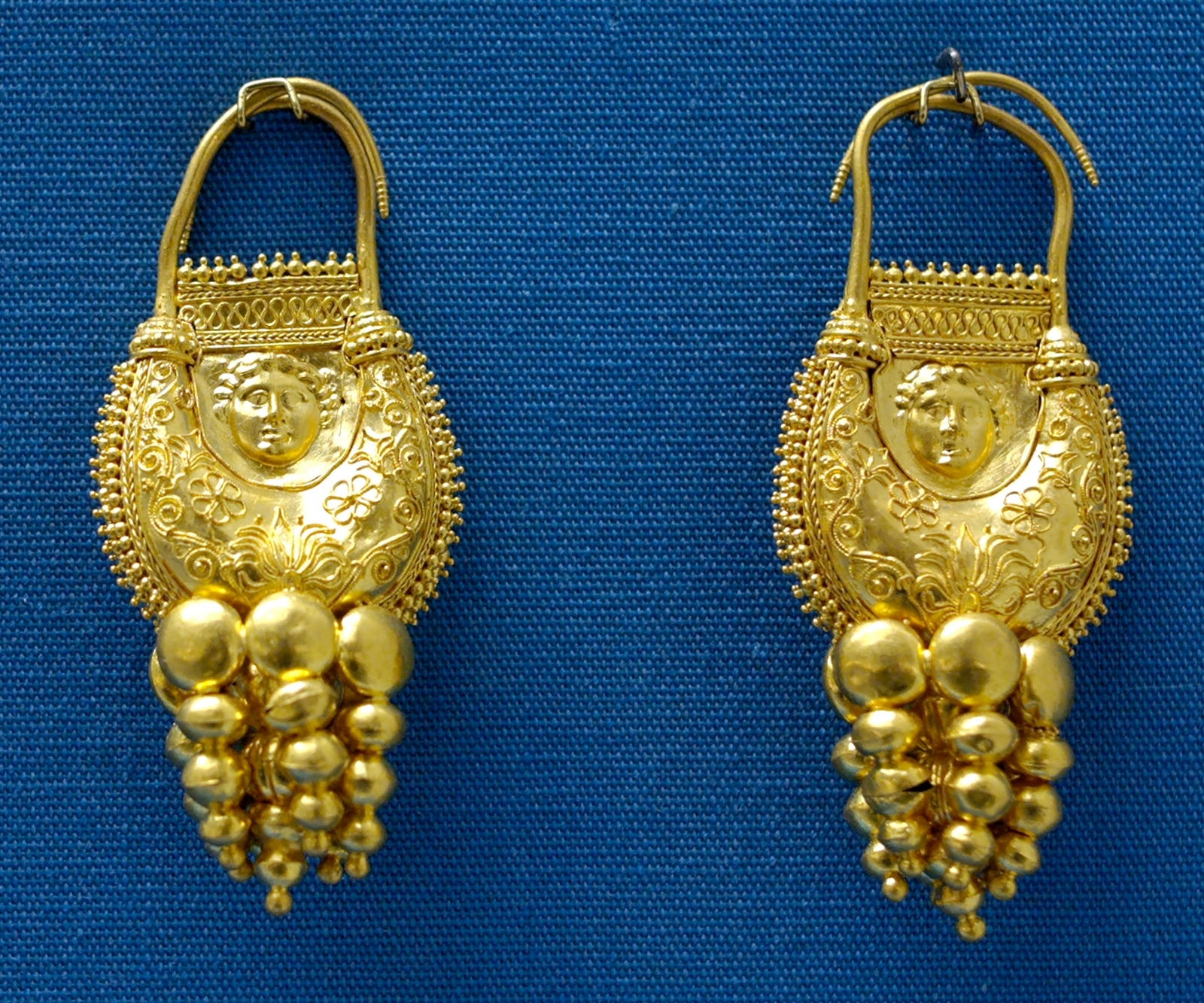 Earrings with pendants in the shape of amphorae. Gold, 2nd–1st centuries BC.